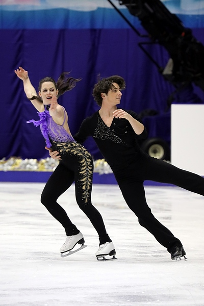 Tessa Virtue and Scott Moir at the 2016 NHK Trophy